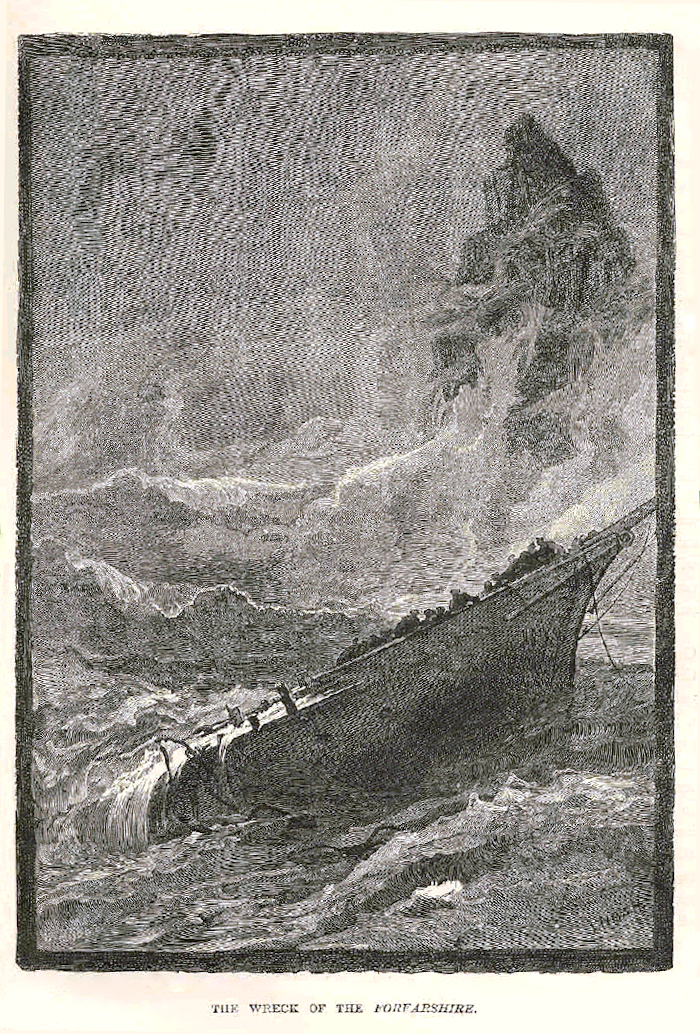 Wreck of the Forfarshire Subject: Forfarshire (Ship), Shipwrecks Tag: Expositions